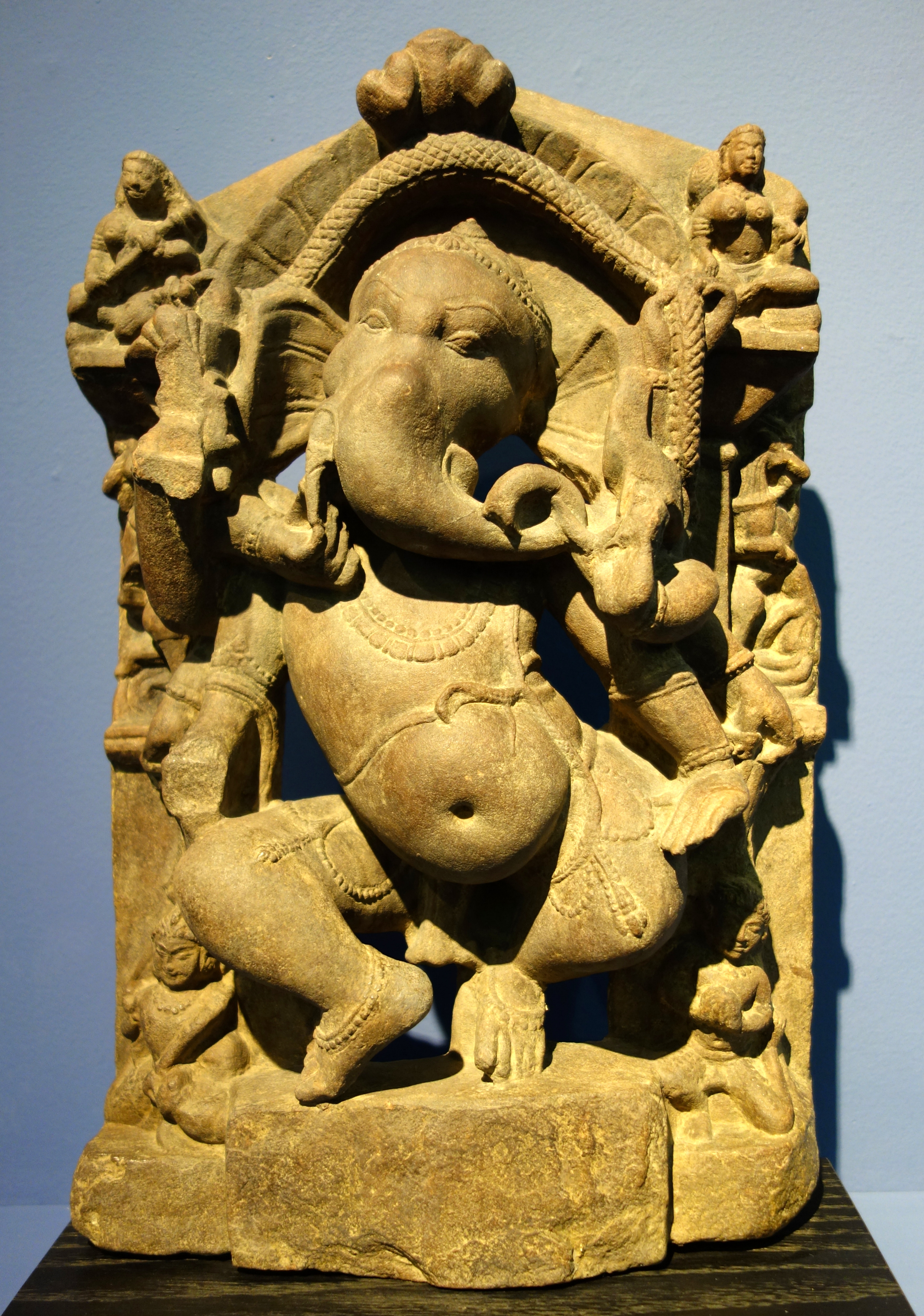 Exhibit in the Fitchburg Art Museum, Fitchburg, Massachusetts, USA. This artwork is old enough so that it is in the public domain.